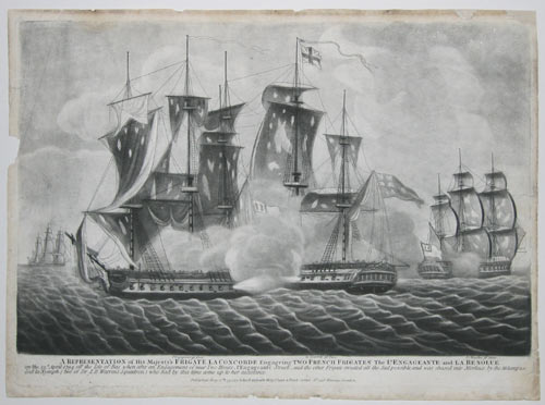 A Representation of His Majesty's Frigate Concorde Engaging Two French Frigates The Engageante and Résolue on the 23d April 1794 off the Isle of Bas when after an Engagement of near two hours, Engageante Struck, and the other Frigate crouded all the Sail possible, and ws chased into Morlaix, by the Melampus and the Nymph ( two of Sir. J. B. Warren's Squadron ) who had by this time come up to her assistance.